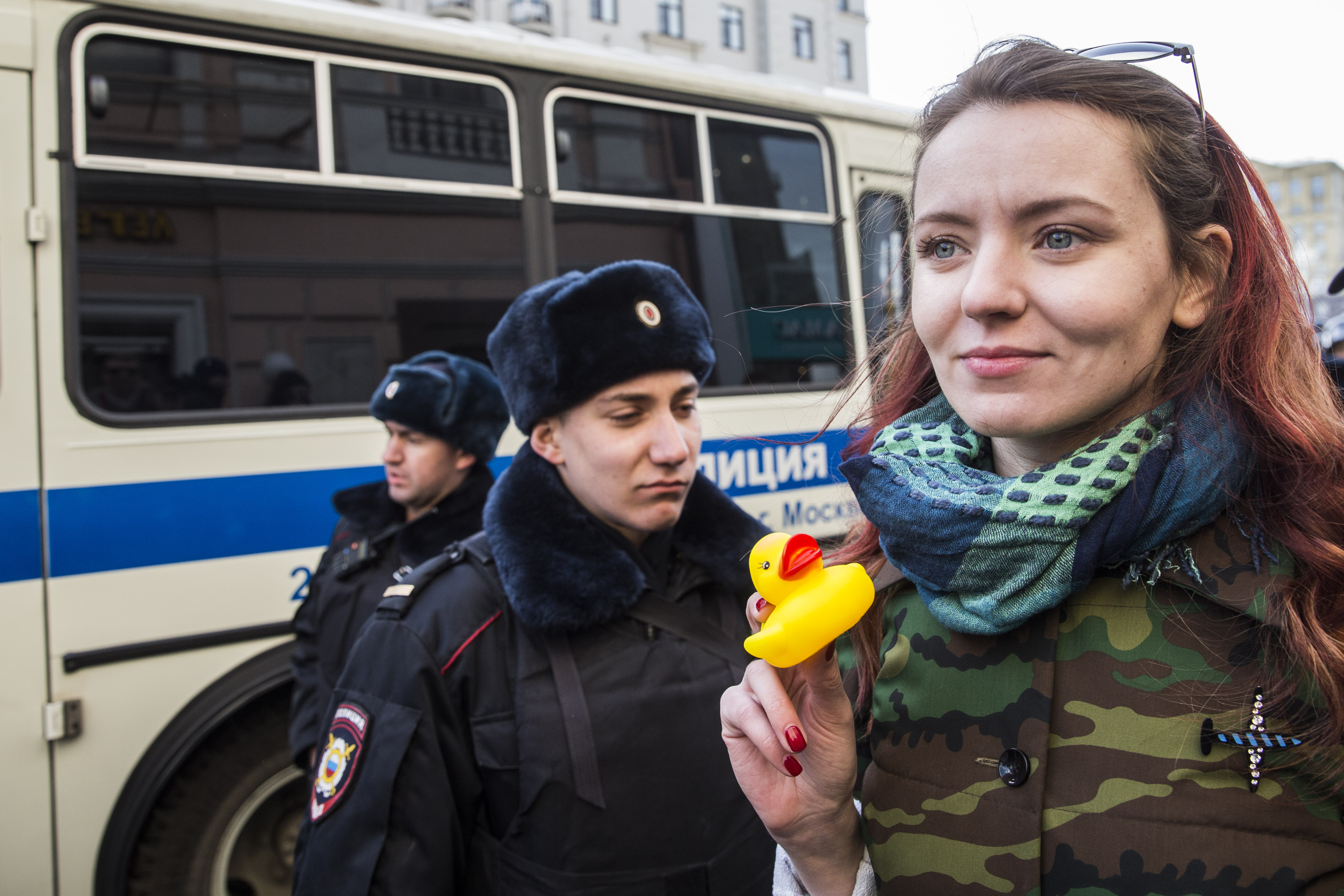 A protester is seen on Tverskaya street